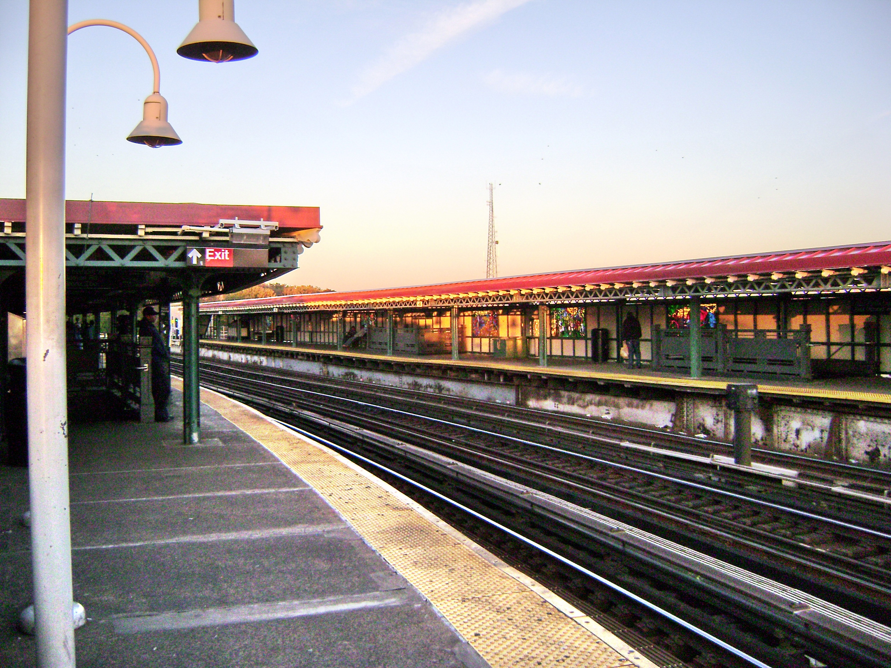 Looking north in the West Farms Square-East Tremont Avenue subway station